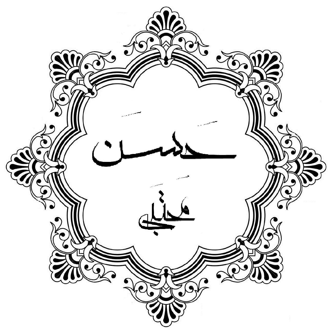 Hassan mojtaba